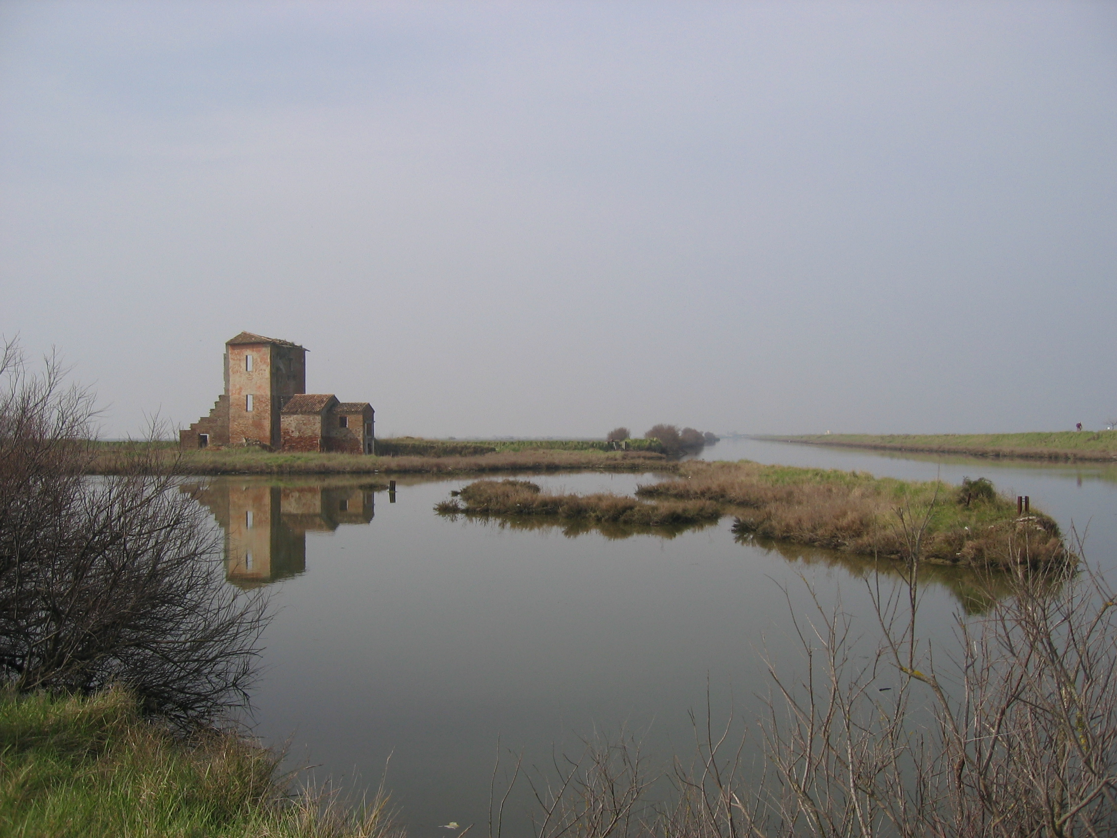 Salt ponds in Comacchio, Ferrara (Italy)